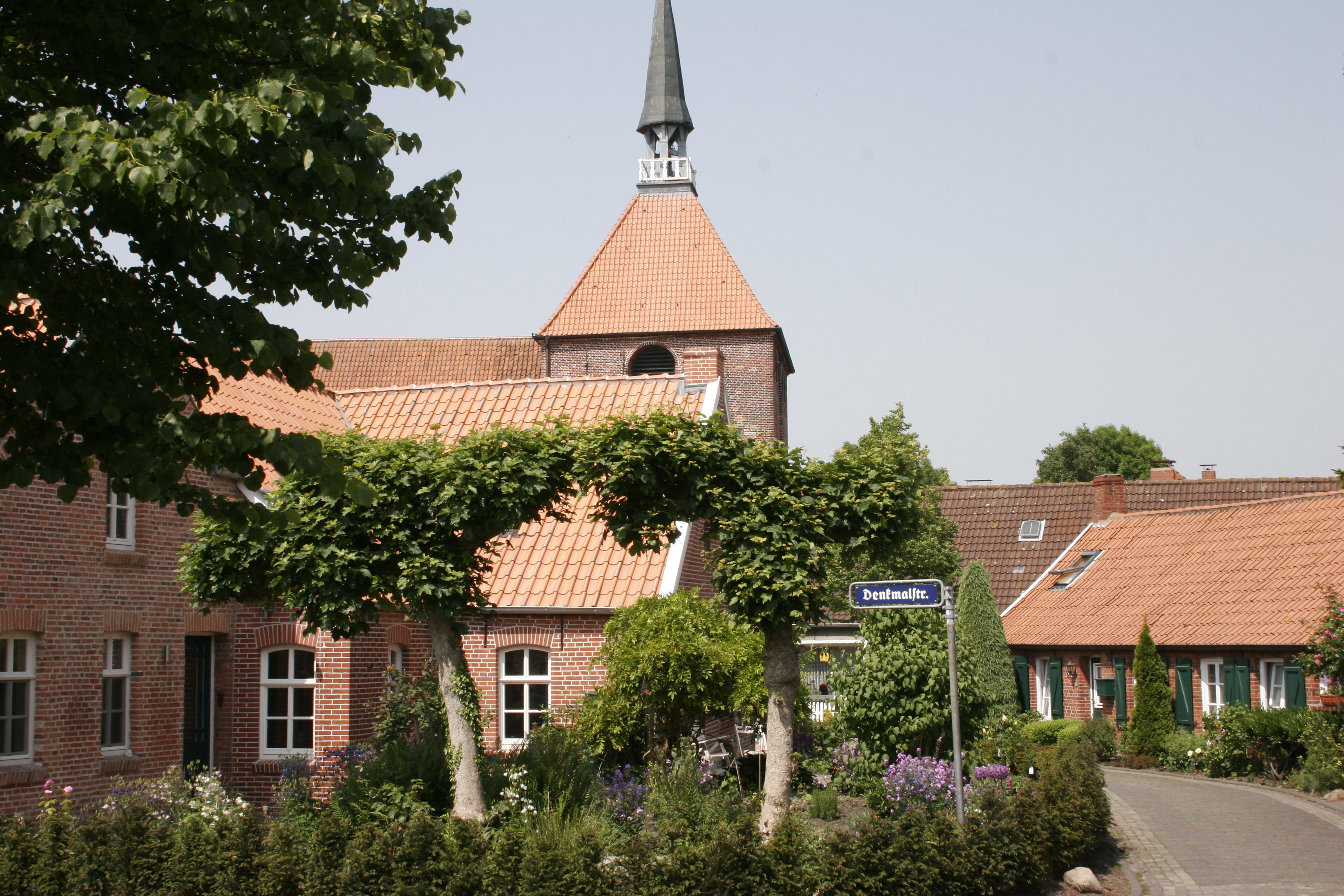 The village of Rysum, Germany.